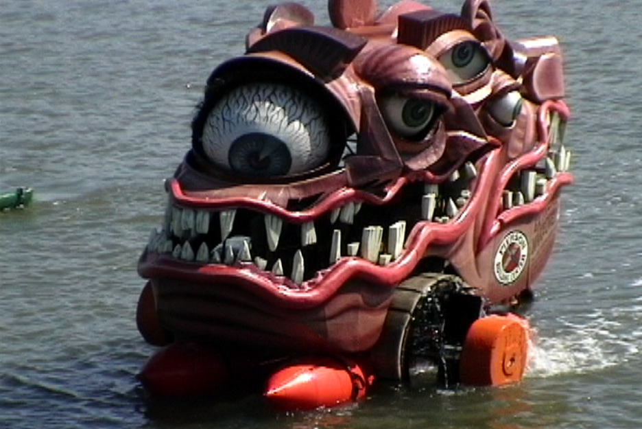 A kinetic sculpture crosses Humboldt Bay in 2006.